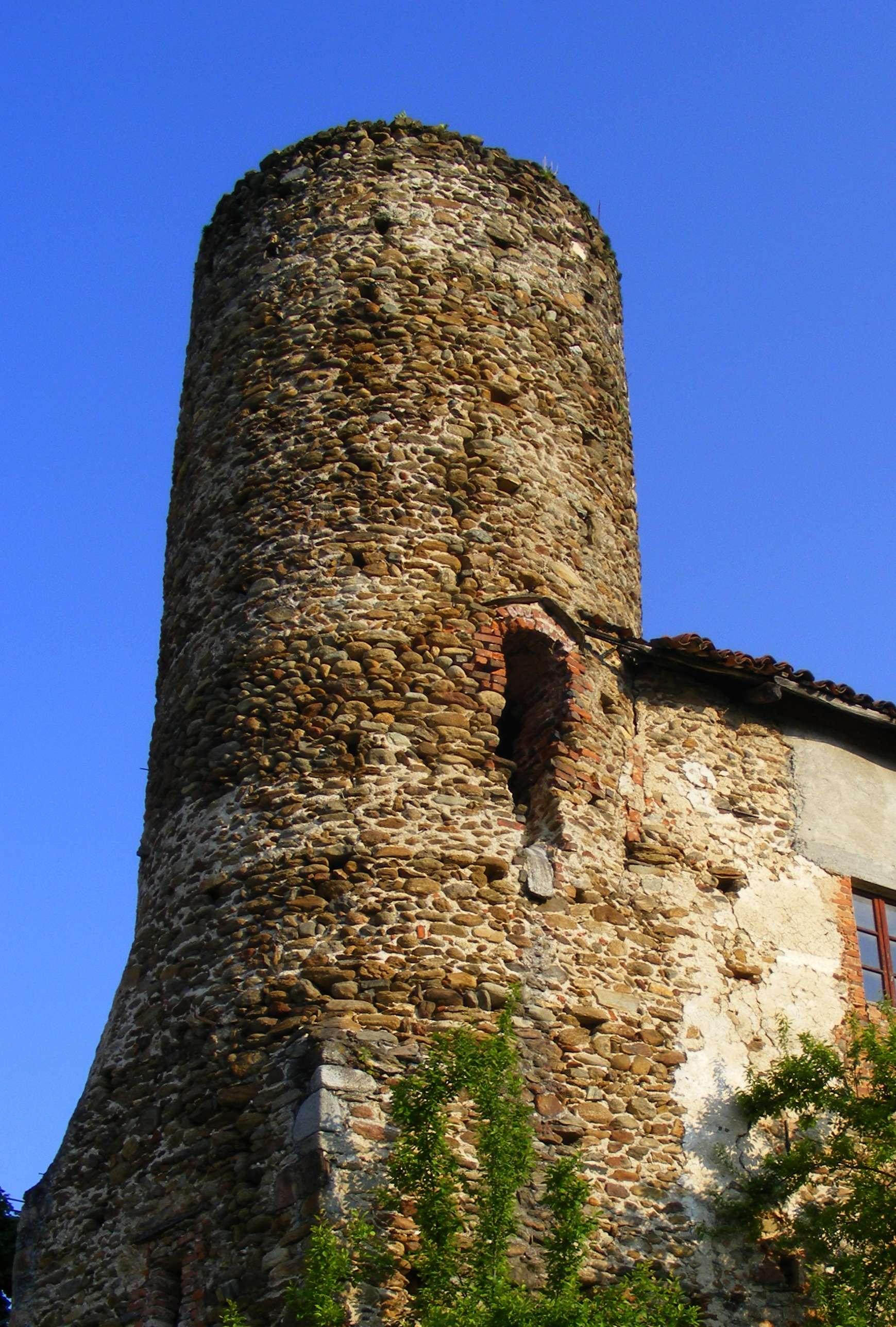 Colleretto Castelnuovo (TO, Italy): middle ages tower